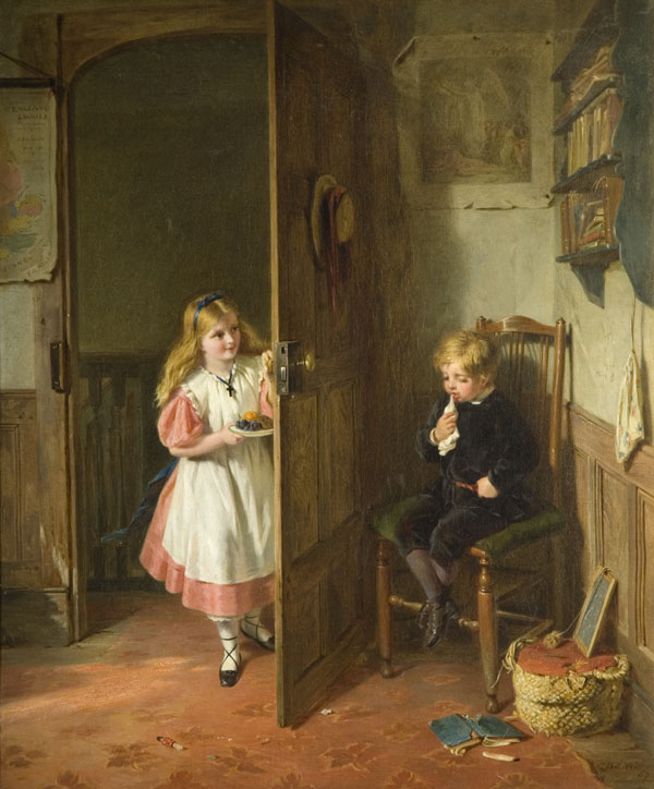 See references: A young boy, sits on the Victorian version of the 'naughty chair'. His schoolwork lies discarded on the floor and is probably the reason why he is in trouble. His sympathetic sister brings him some food to cheer him up. Two versions of this painting were originally made; the first was sold to the art dealer, Graves in 1867 but was burnt, presumably at his premises, the second was bought by Graves in 1868.